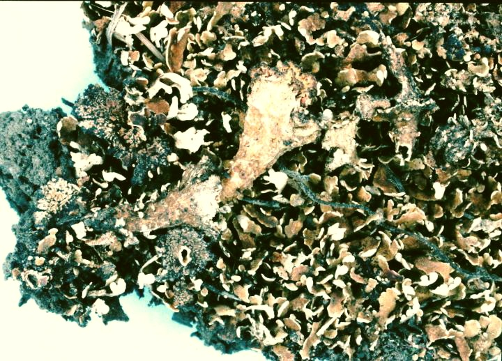 Cladonia strepsilis (Ach.) Grognot (photograph of a herbarium specimen) Growing in dry sterile soil in Riverdale, Prince George's County, Maryland, USA; collected and identified by Elmer G. Worthley (No. LH-79, 22 Feb 1950); specimen is now in the Lichen Herbarium of the New York Botanical Garden.